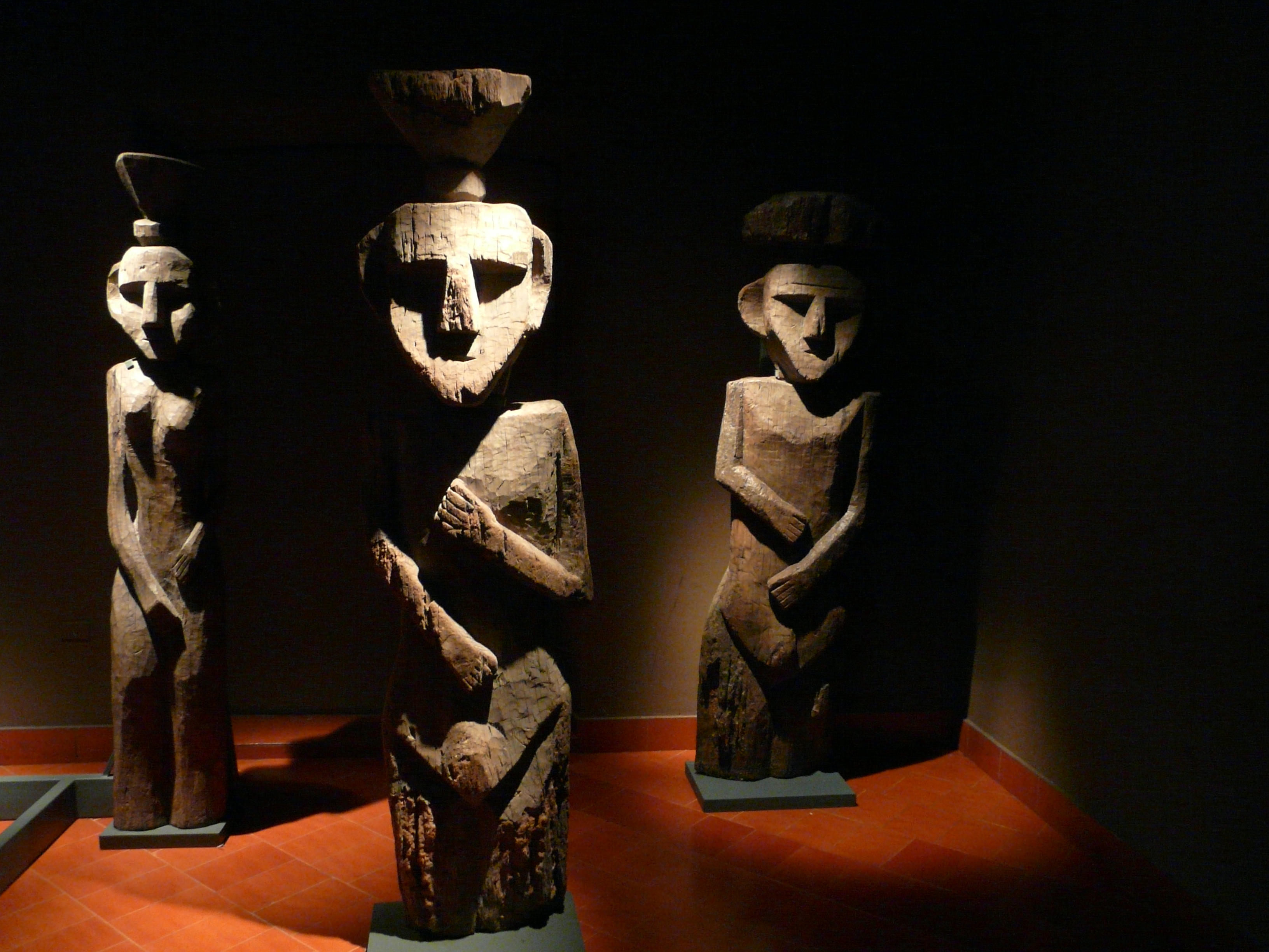 Chemamulls in the Chilean Pre-Columbian Art Museum